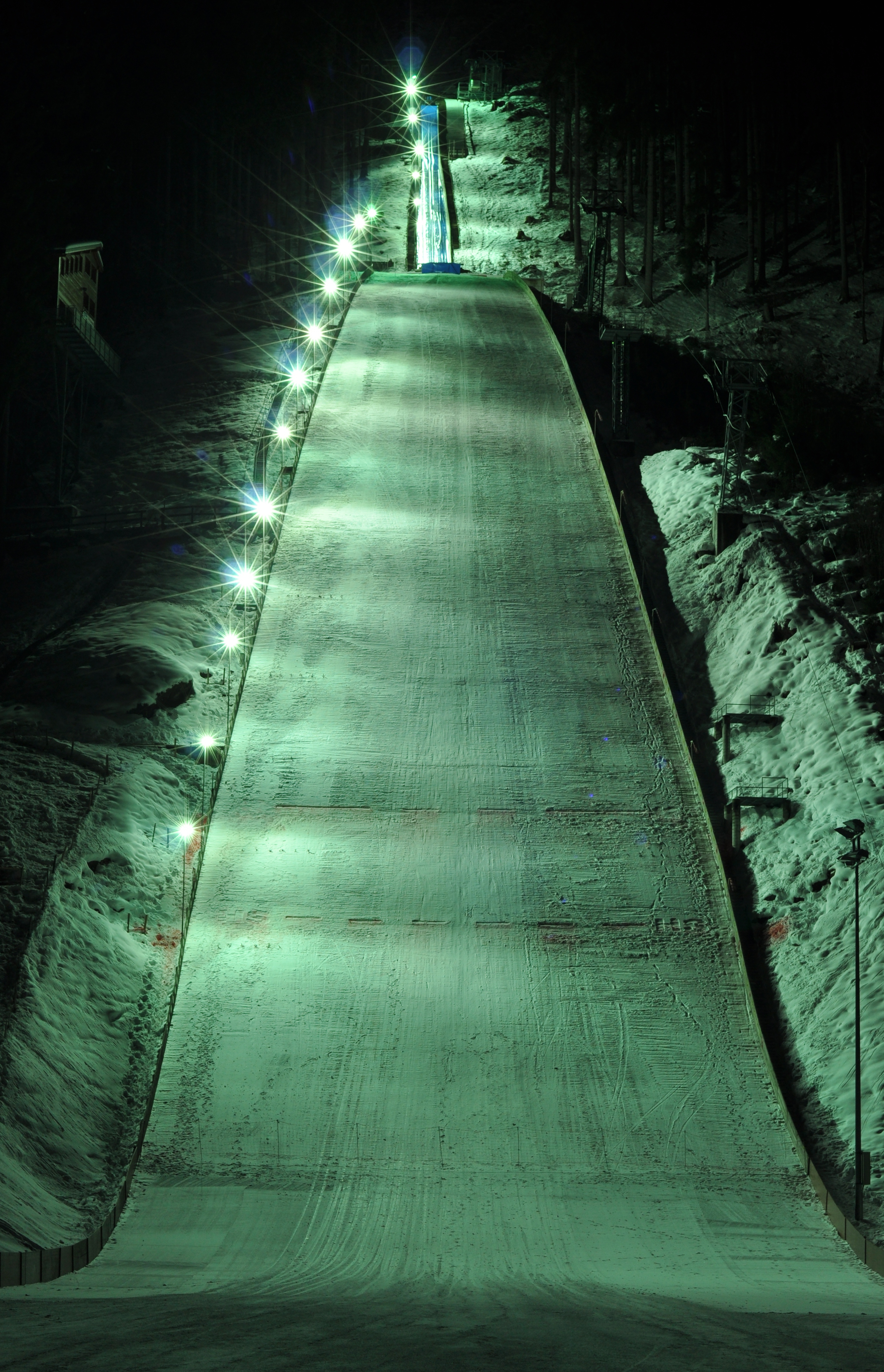 The Gross-Titlis-Schanze at night